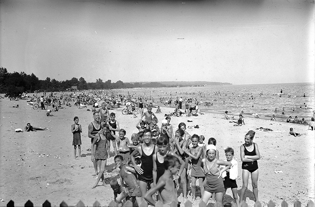 Leslie Beach was located at the foot of Leslie Street. It disappeared when the Leslie Street Spit was constructed.